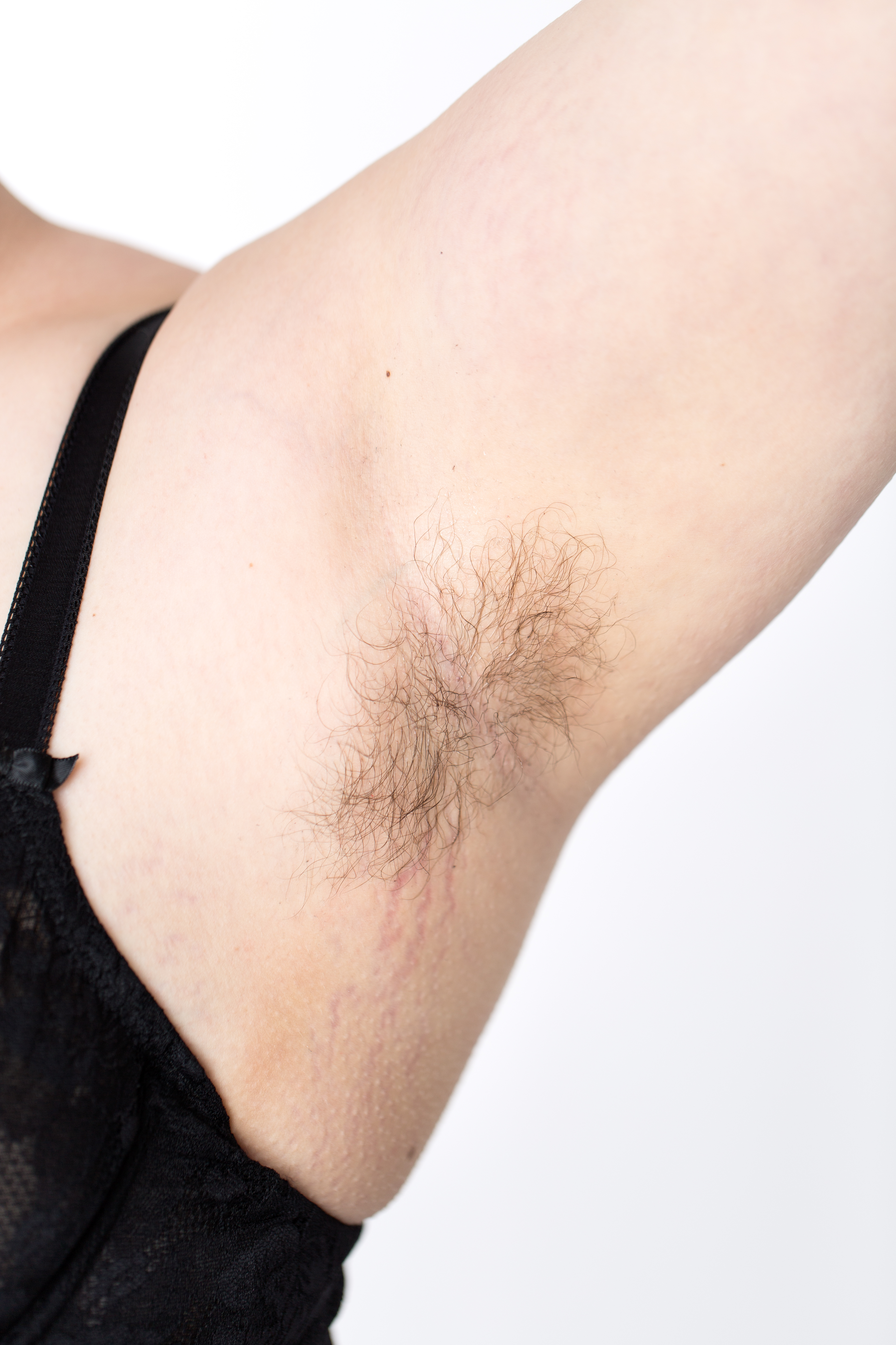 Left armpit of a genderqueer person